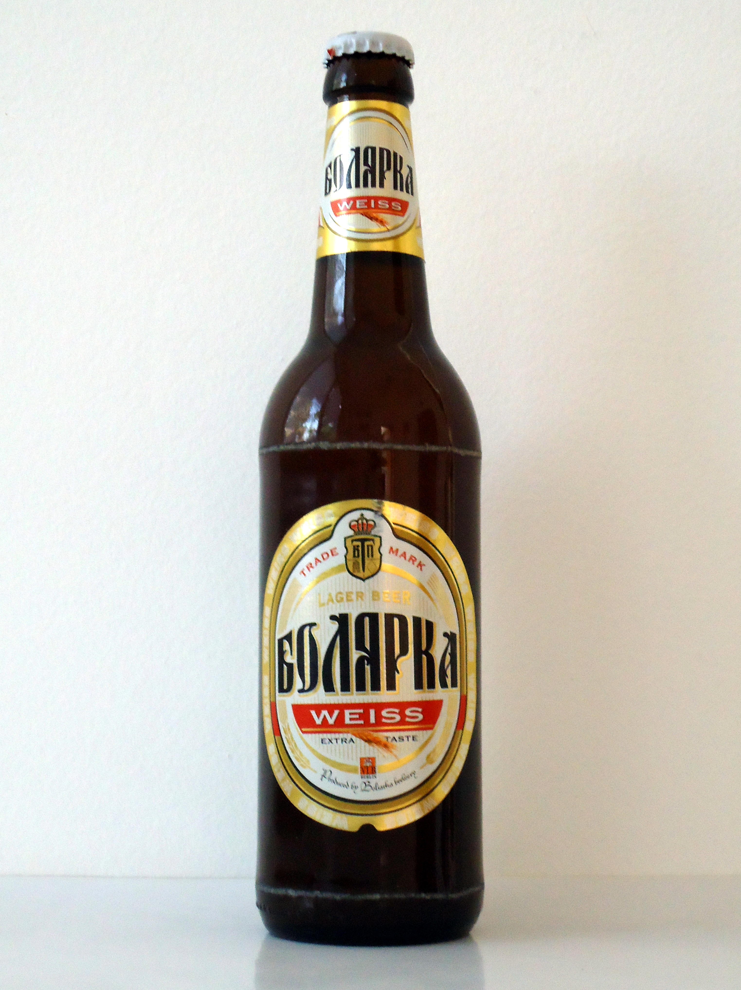 Bolyarka Weiss - Bulgaria - wheat beer